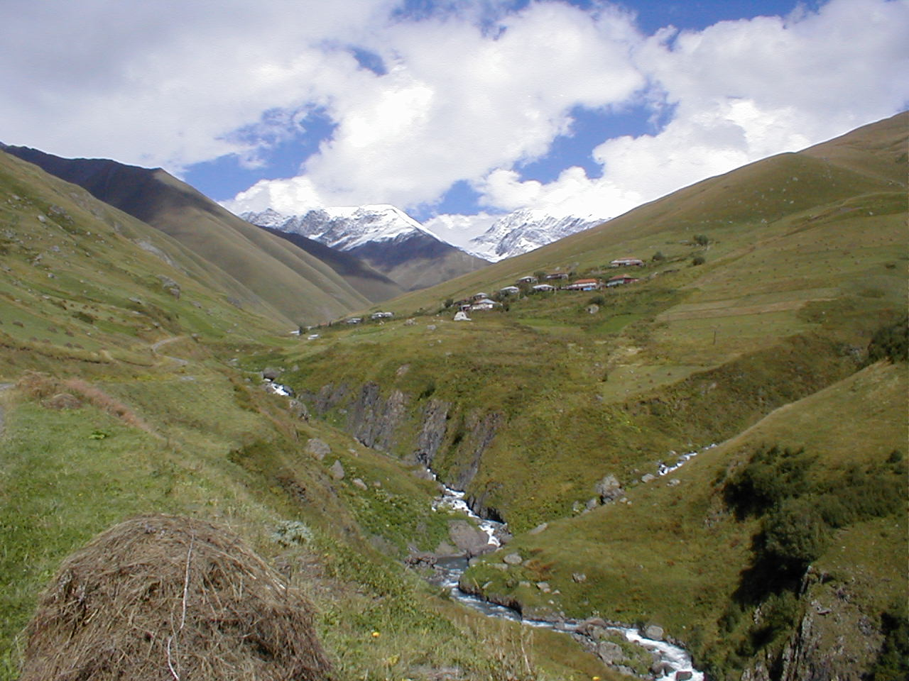 Kazbegi-Juta